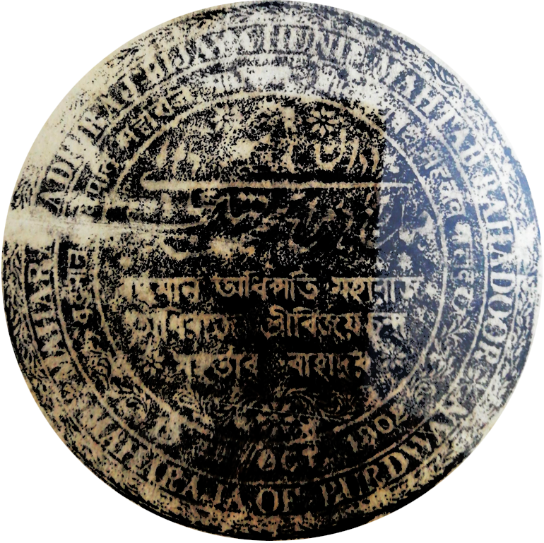 Bijay Chand Mahtab was King of Bardhaman, British India. This image is a scanned copy of a seal found on a legal agreement document. The original document is owned by me.